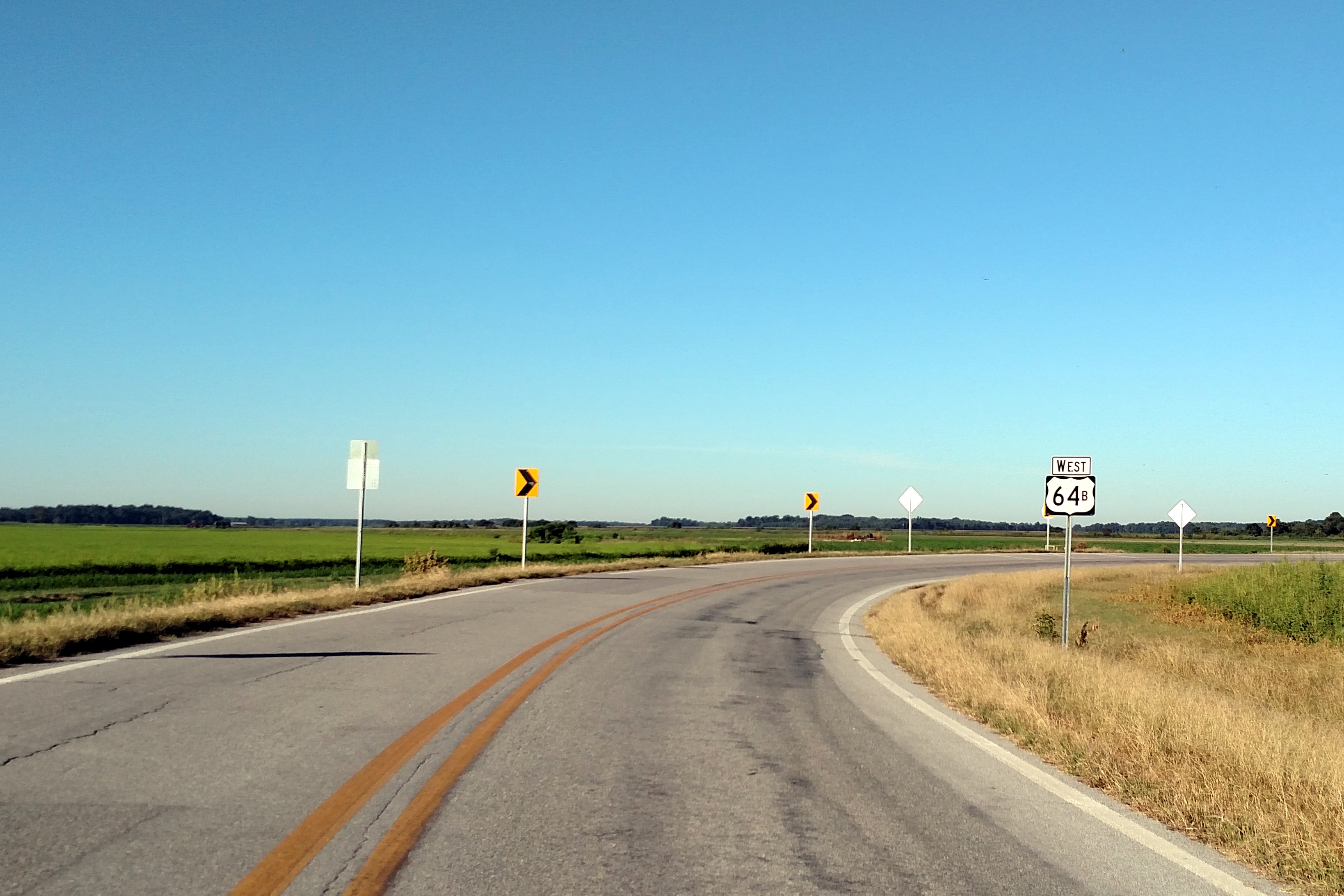 First sign at east end of Hwy 64B near Hwy 64 terminus